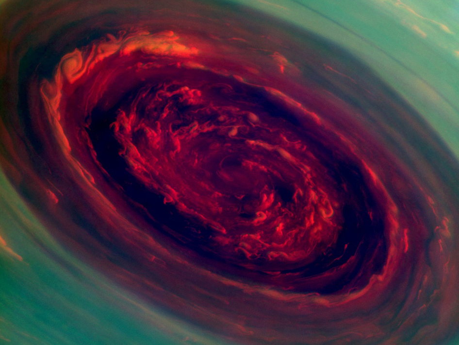 The spinning vortex of Saturn's north polar storm resembles a deep red rose of giant proportions surrounded by green foliage in this false-color image from NASA's Cassini spacecraft. Measurements have sized the eye at 1,250 miles (2,000 kilometers) across with cloud speeds as fast as 330 miles per hour (150 meters per second). This image is among the first sunlit views of Saturn's north pole captured by Cassini's imaging cameras. When the spacecraft arrived in the Saturnian system in 2004, it was northern winter and the north pole was in darkness. Saturn's north pole was last imaged under sunlight by NASA's Voyager 2 in 1981; however, the observation geometry did not allow for detailed views of the poles. Consequently, it is not known how long this newly discovered north-polar hurricane has been active. The images were taken with the Cassini spacecraft narrow-angle camera on Nov. 27, 2012, using a combination of spectral filters sensitive to wavelengths of near-infrared light. The images filtered at 890 nanometers are projected as blue. The images filtered at 728 nanometers are projected as green, and images filtered at 752 nanometers are projected as red. In this scheme, red indicates low clouds and green indicates high ones. The view was acquired at a distance of approximately 261,000 miles (419,000 kilometers) from Saturn and at a sun-Saturn-spacecraft, or phase, angle of 94 degrees. Image scale is 1 mile (2 kilometers) per pixel.